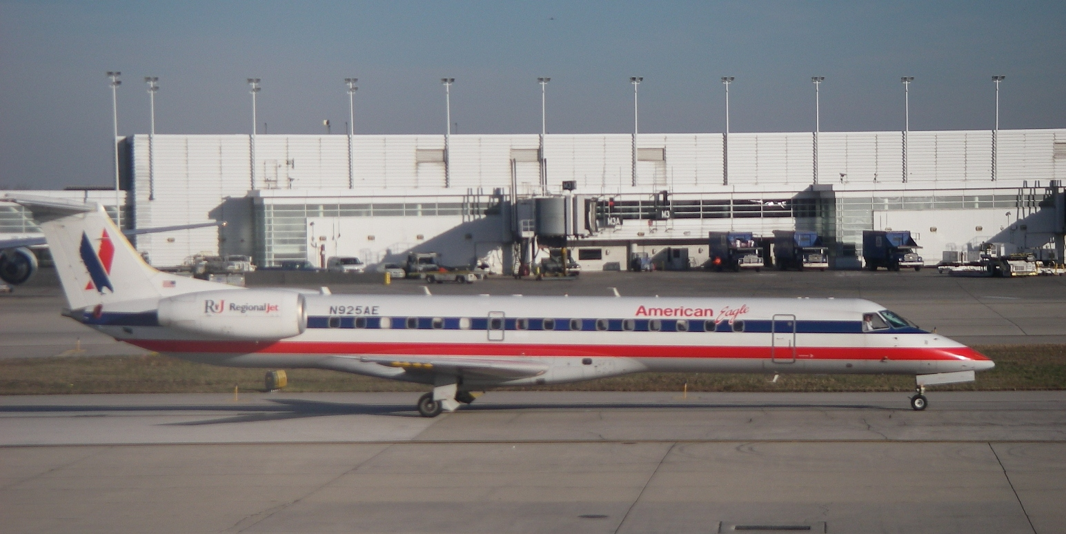 A regional jet Embraer ERJ 145 at Midway Airport (Chicago, IL). Belongs to «American Eagle» airlines